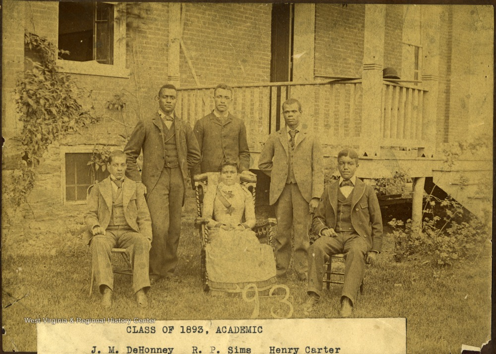 Class of 1893 at Storer College in Harpers Ferry West Virginia an African American school featuring students M. DeHonney, Robert P. Sims, Henry Carter, W. P. Crump, Stella James Sims, J. C. Gilmer.